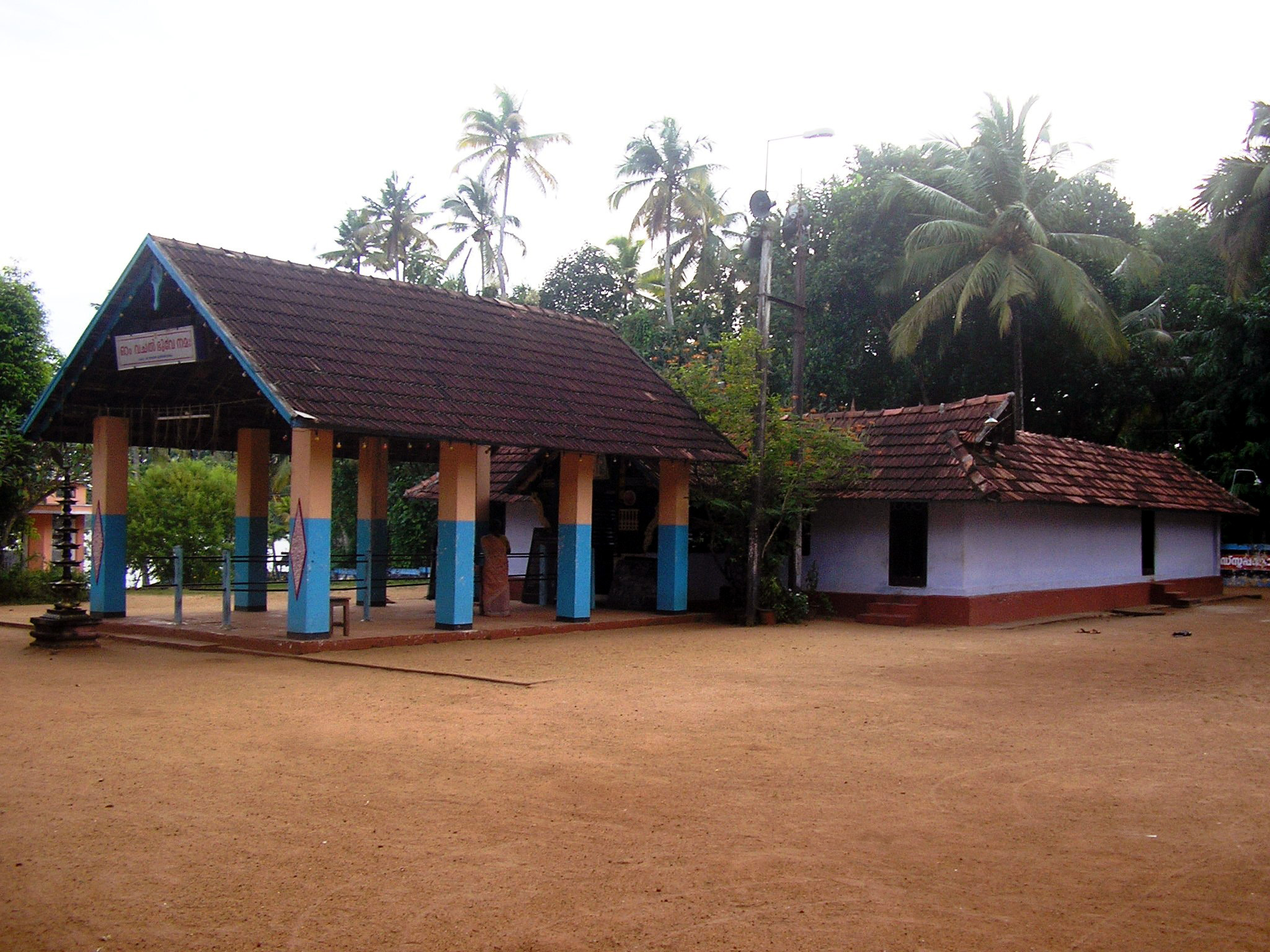 Guhanandapuram Subramanya Swami Kshethram